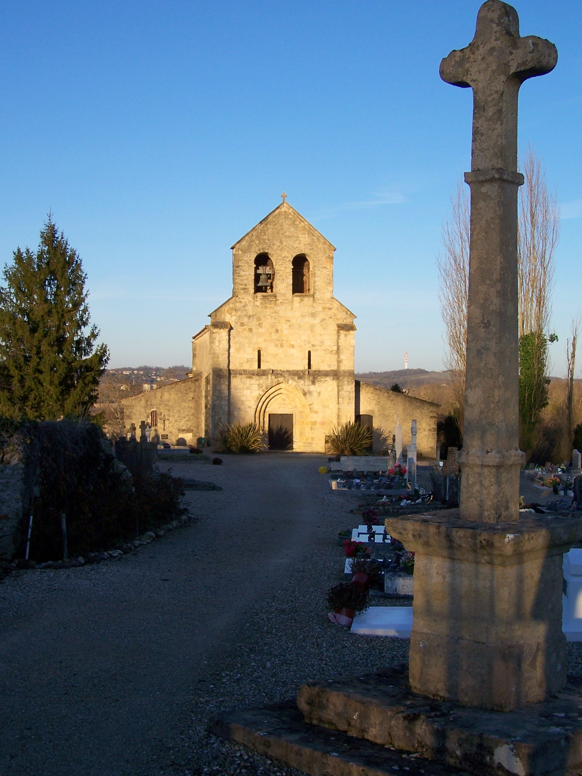 Church of Saint-Loubert (Gironde, France)